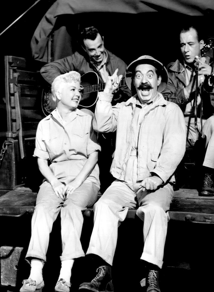 Photo of Frances Langford and Jerry Colonna from the television program Frances Langford Presents.